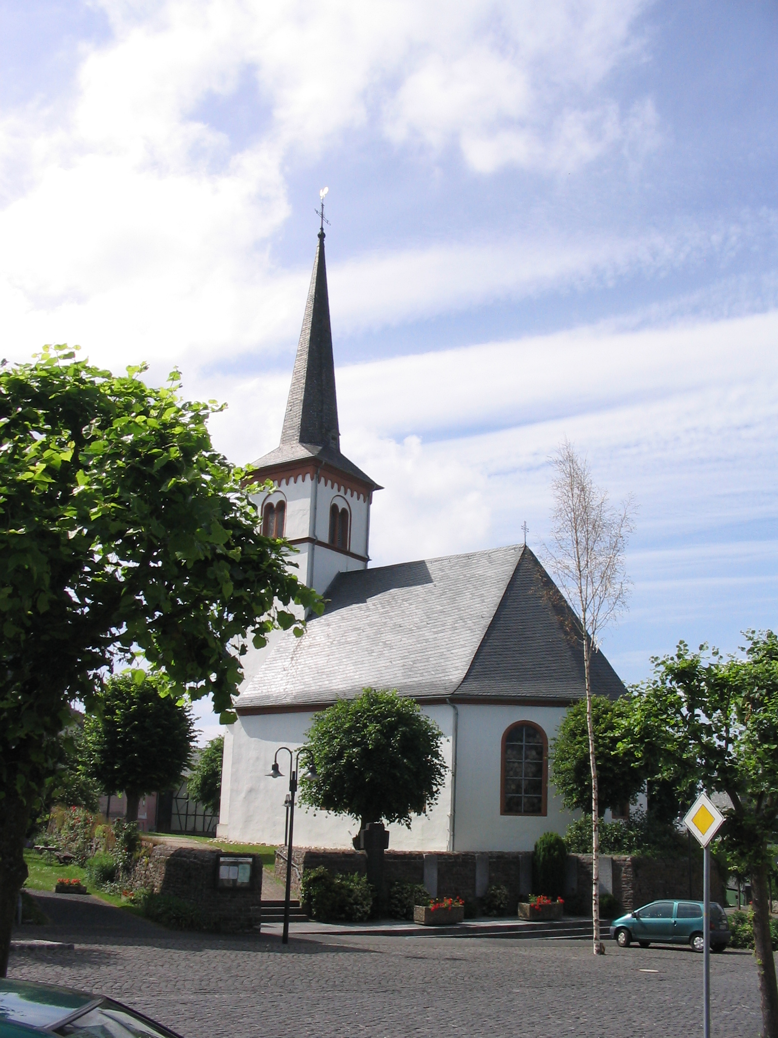 Protestant church of Lötzbeuren.